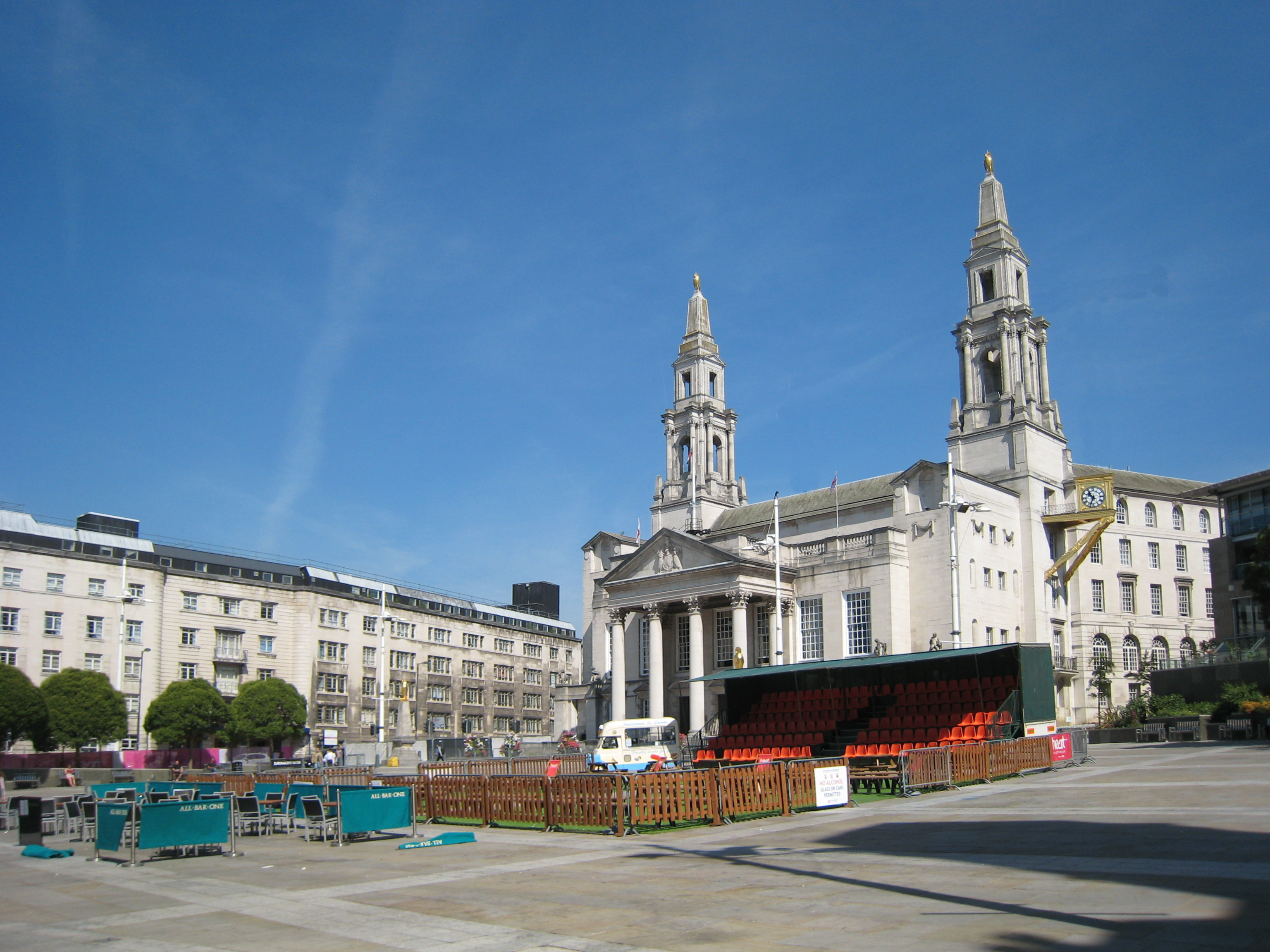 Millennium Square, Leeds. Seating to watch the football World Cup on a TV screen (off picture to left). Left background is the Brotherton Wing of the Leeds General Infirmary. Right background is Leeds Civic Hall.